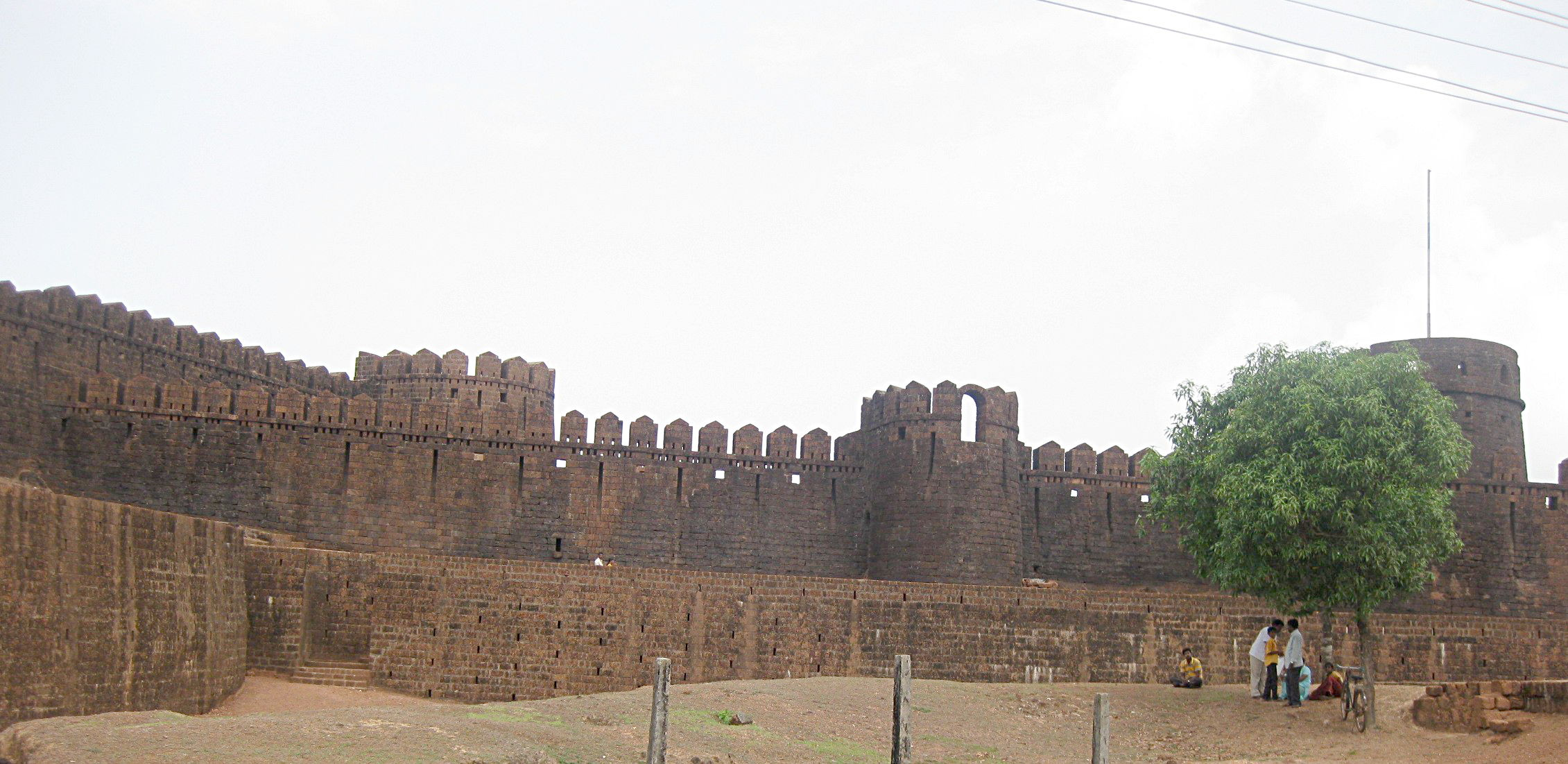 Front view of Mirjan fort